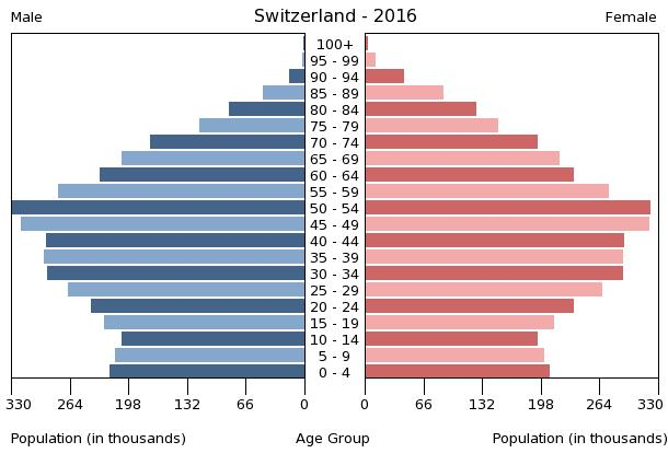 The population pyramid of Switzerland illustrates the age and sex structure of population and may provide insights about political and social stability, as well as economic development. The population is distributed along the horizontal axis, with males shown on the left and females on the right. The male and female populations are broken down into 5-year age groups represented as horizontal bars along the vertical axis, with the youngest age groups at the bottom and the oldest at the top. The shape of the population pyramid gradually evolves over time based on fertility, mortality, and international migration trends.